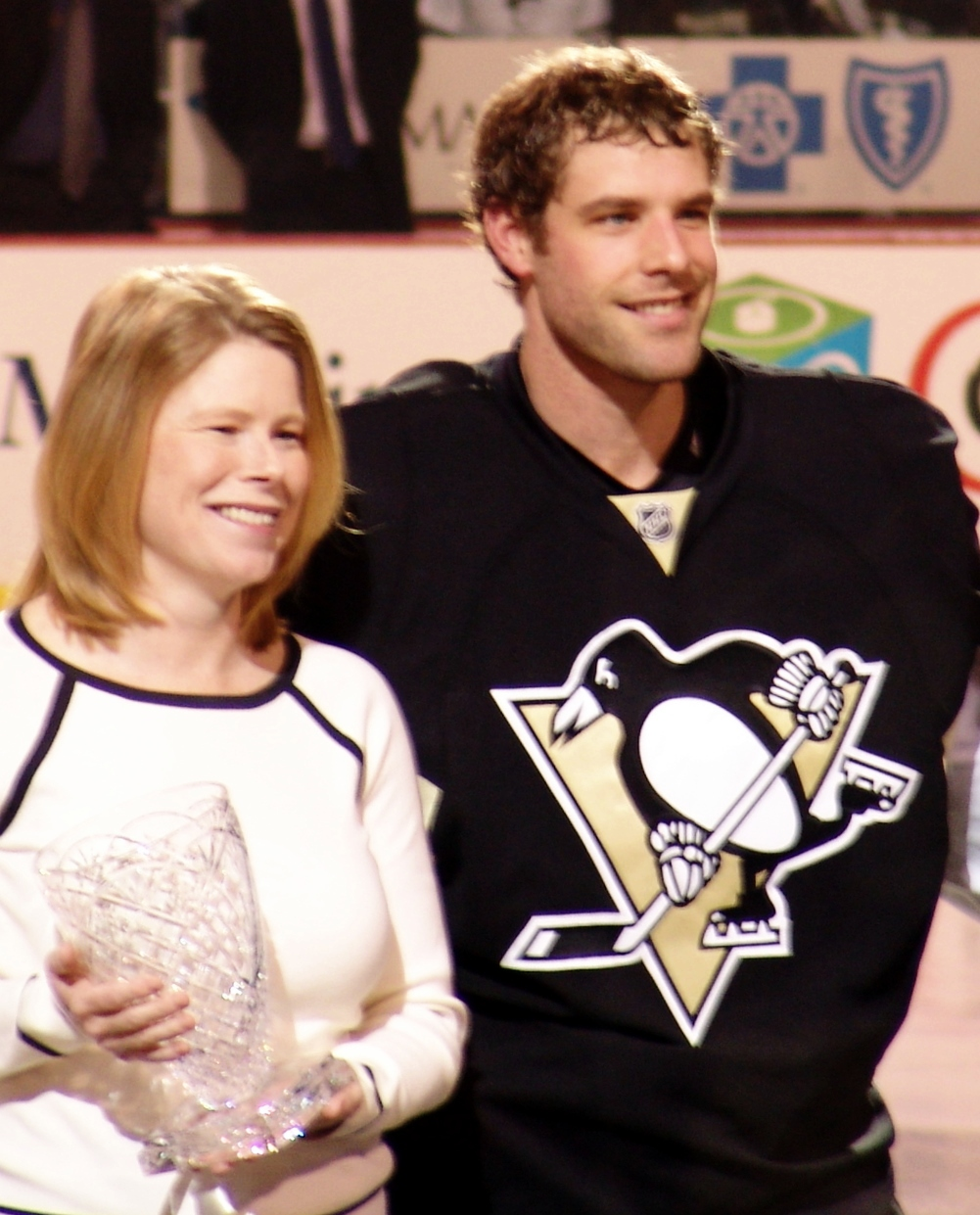 Goalie Ty Conklin being honored as the Pittsburgh Penguins nominee for the Bill Masterton Memorial Trophy during a pregame ceremony before a game against the Philadelphia Flyers, April 2, 2008 at Mellon Arena in Pittsburgh, PA.